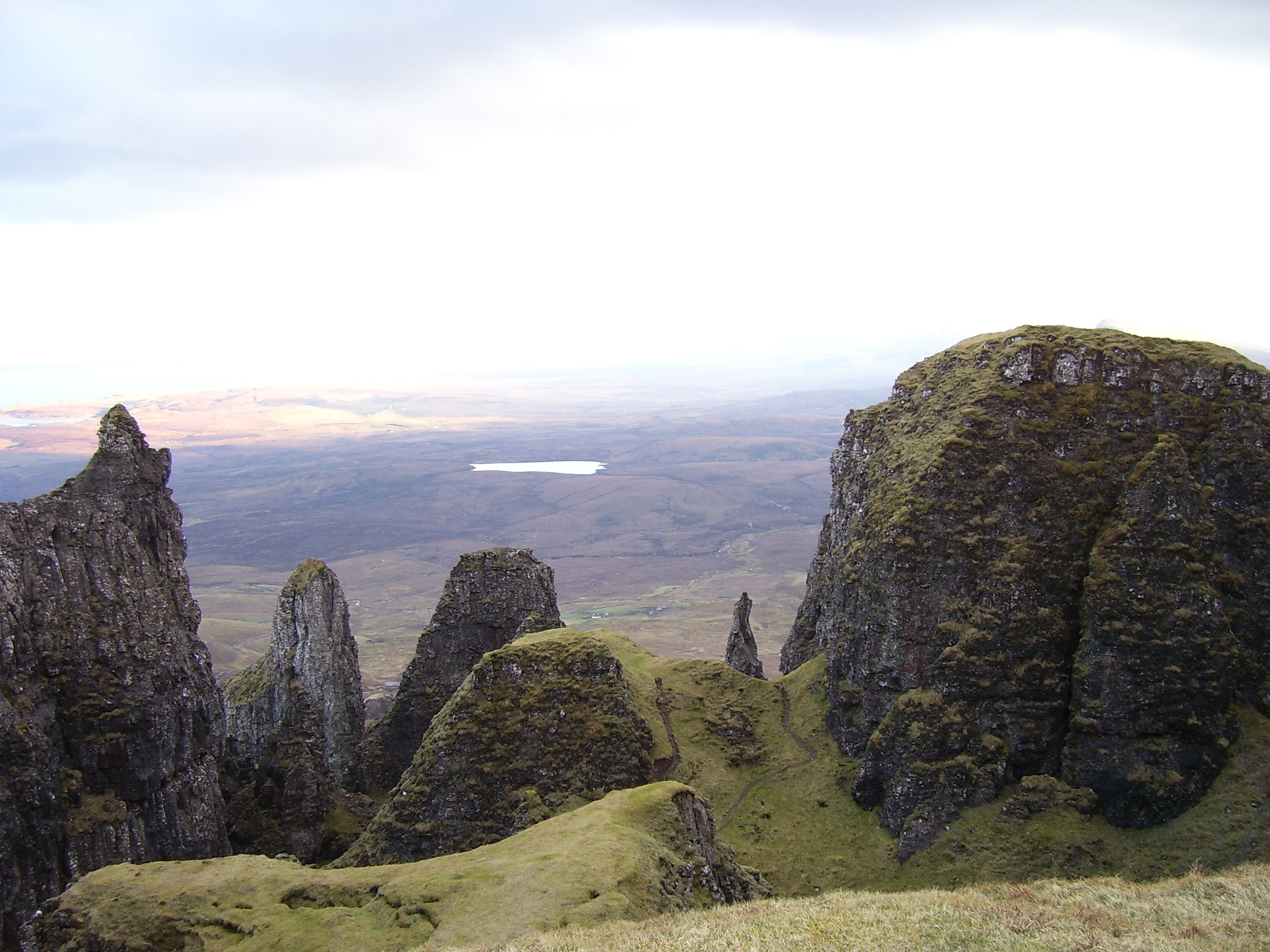 View from The Table in the Quiraing on the Isle of Skye